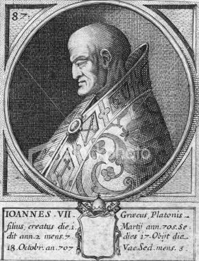 Pope John VII c. 650 – October 18, 707), pope from 705 to 707. Born in Calabria of Greek nationality. Circa 707 AD, Pope John VII (- 707)